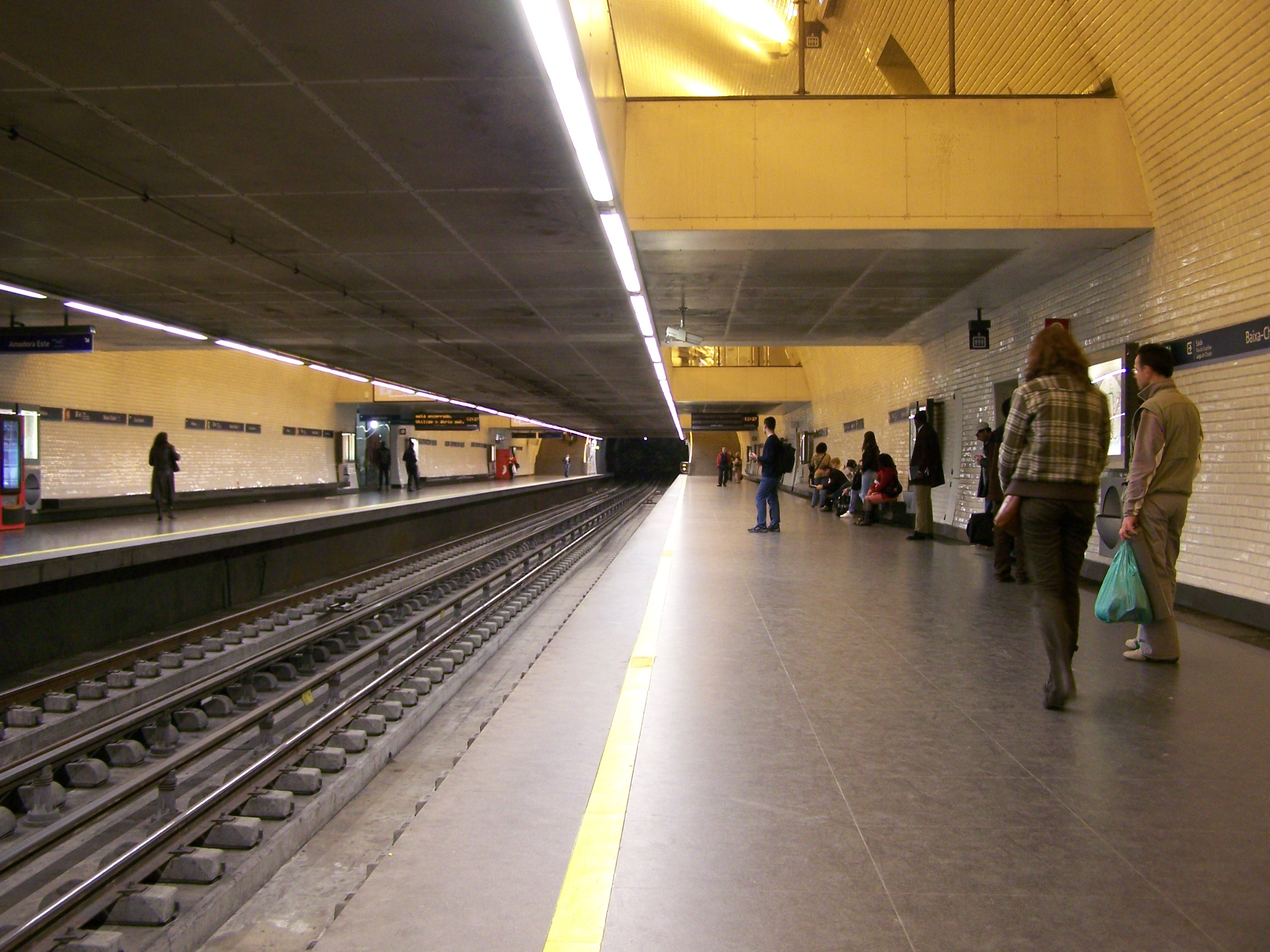 platforms at Lisbon's underground station Baixa-Chiado, Lisbon, Portugal